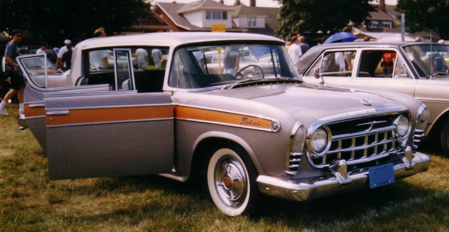 1957 Rambler Rebel 4-door hardtop (pillarless) muscle car by AMC (American Motors Corporation)